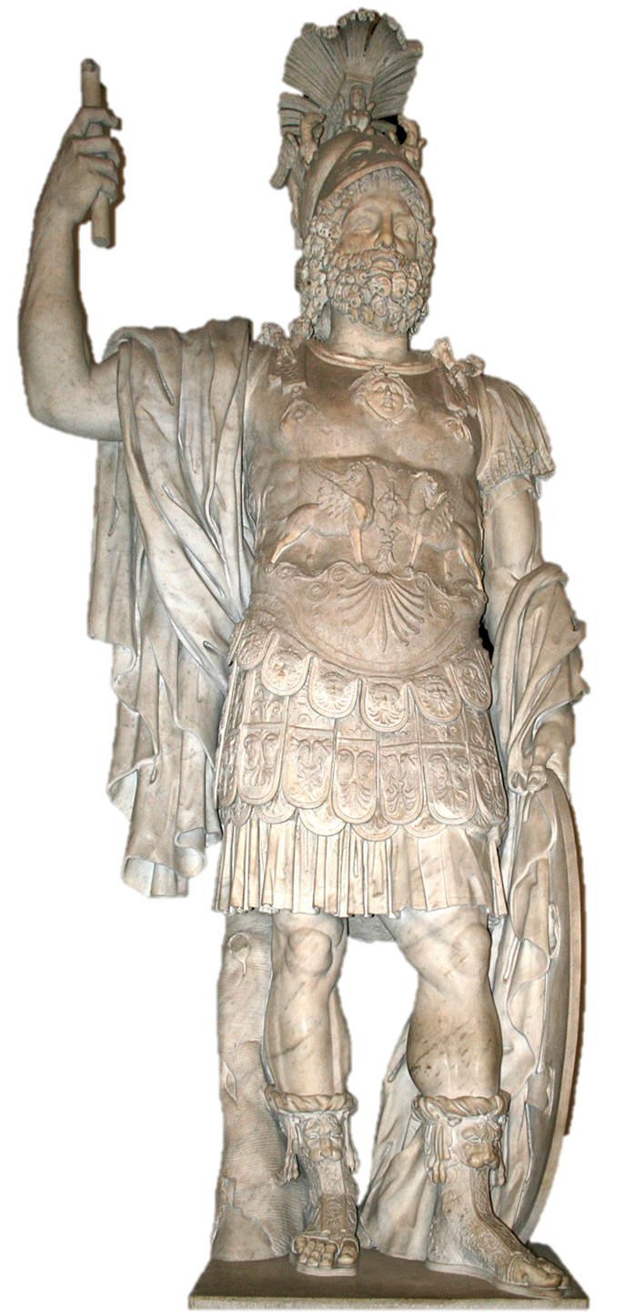 Pirro come Marte. Da immagine su Commons